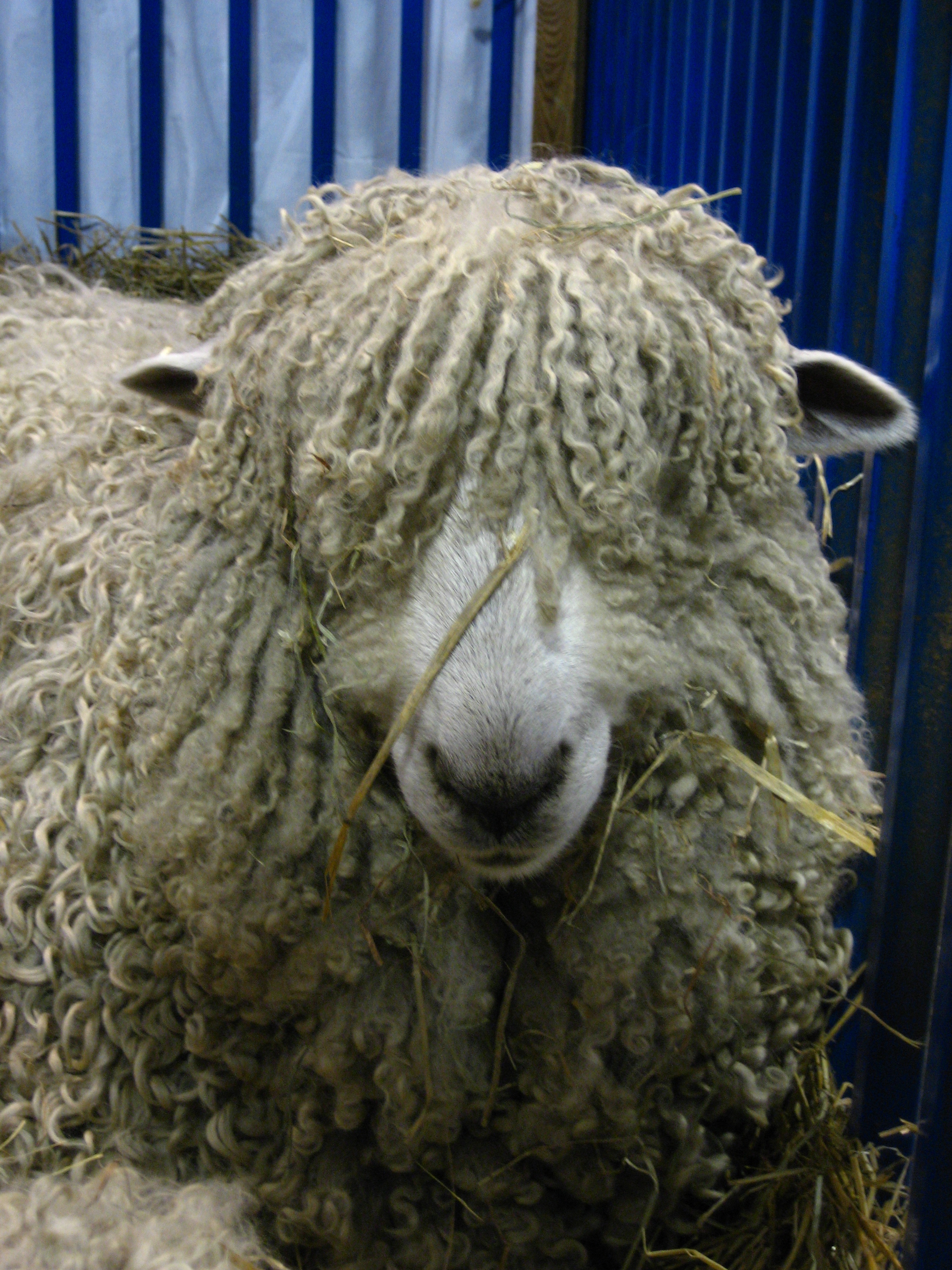 A sheep